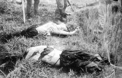 Two young women bodies executed by South Korean 2nd Marine Division, Blue Dragons in Phong Nhi and Phong Nut village, Quang Nam Province, South Vietnam on February 12, 1968. The pregnant woman was shot from close range, her frontal head was blown off. Photo by Corporal J. Vaughn, Delta-2 Platoon, U.S. Marine.[1][2]